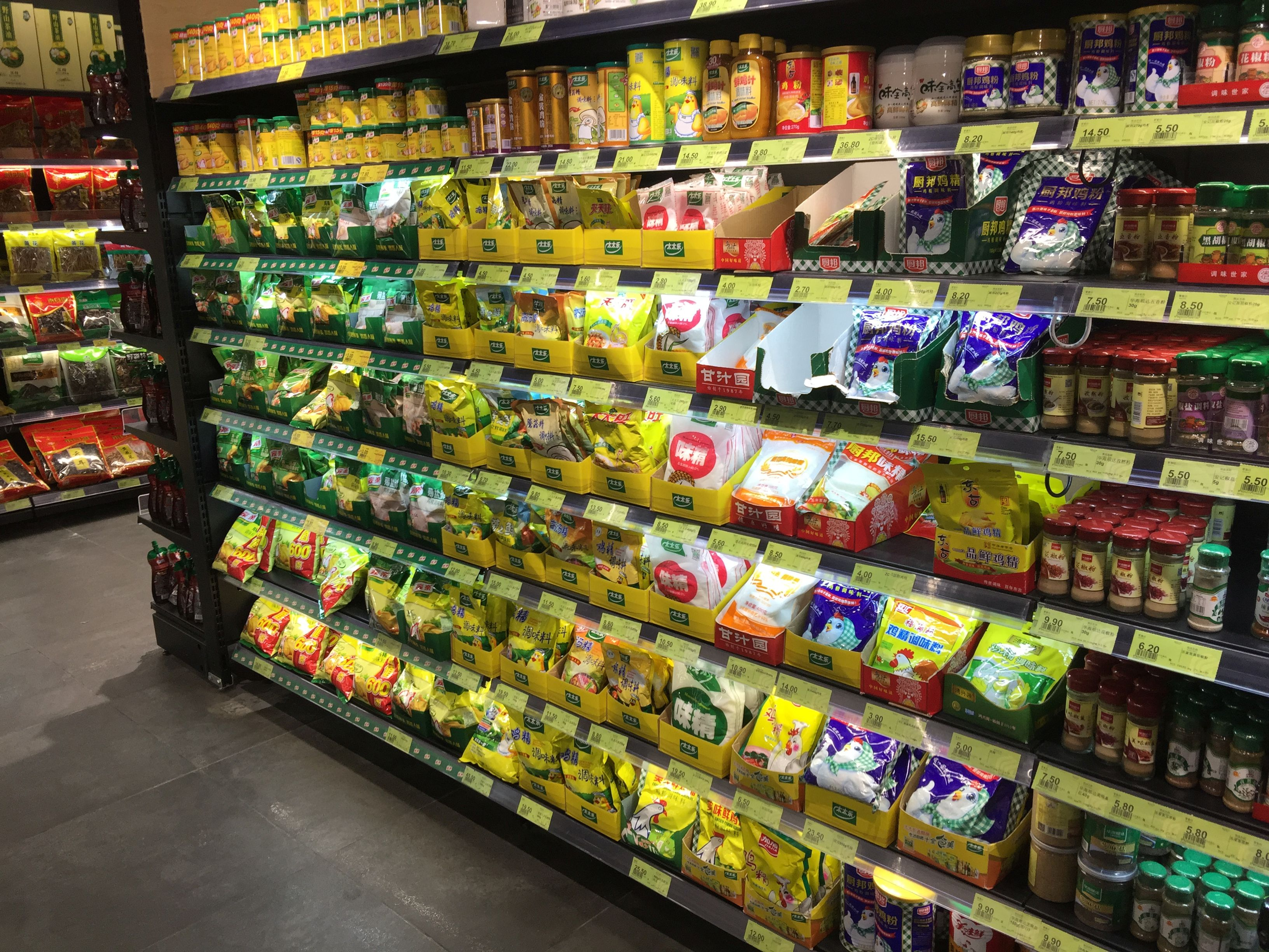 Granulated chicken bouillon selection in a supermarket in Haikou, Hainan, China. Note how most are designed to resemble Knorr brand.